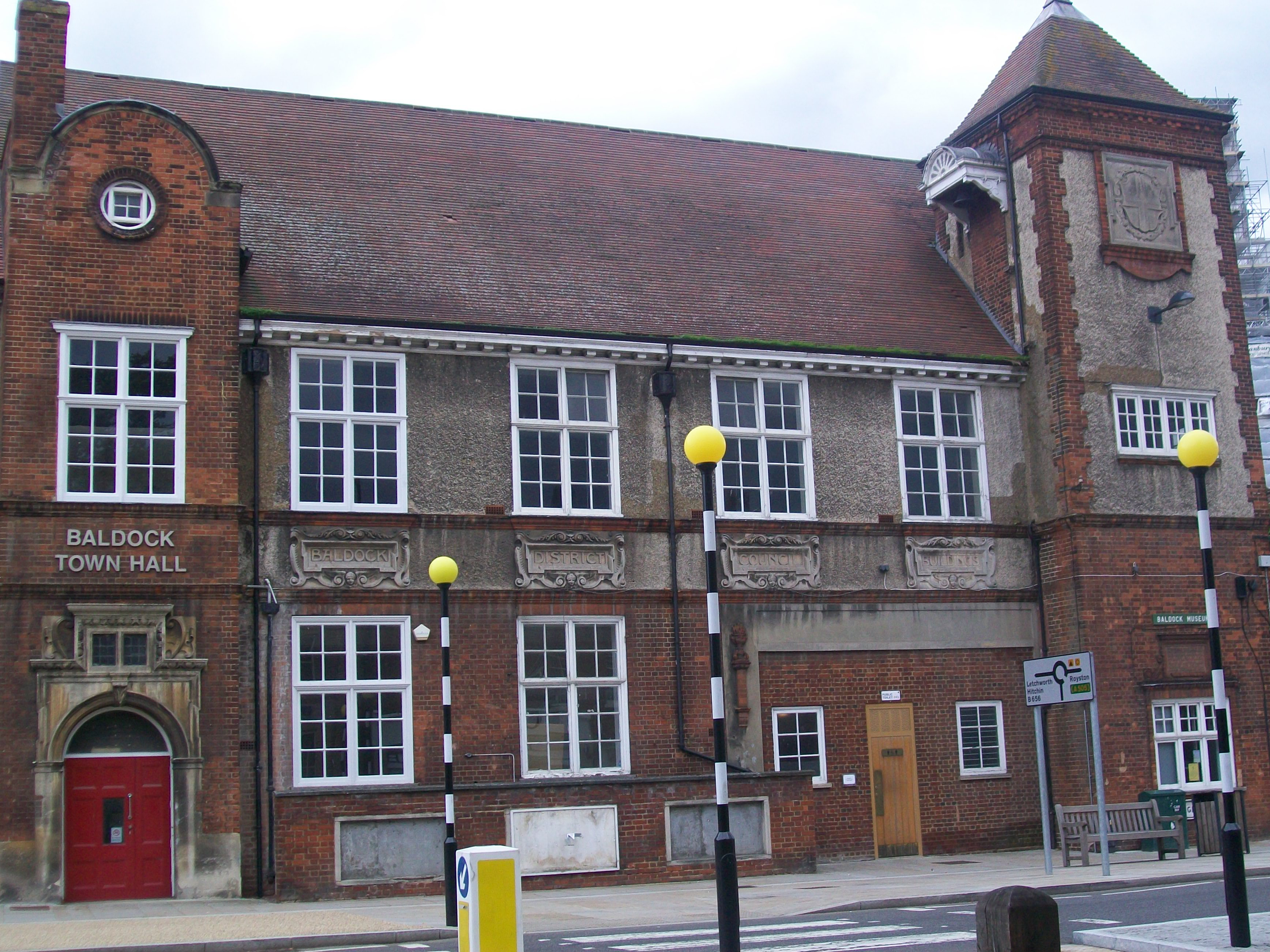 A picture of Baldock Town Hall, Baldock, Hertfordshire.